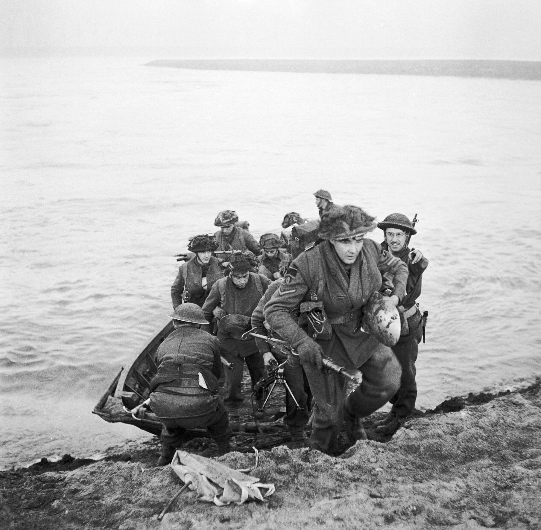 Men of the 15th (Scottish) Division use a small assault craft to cross the Rhine near Xanten, 24 MArch 1945. Crossing the Rhine 24 -31 March 1945: Men of the 15th Scottish Division leave their assault craft after crossing the Rhine and double up the east bank to their assembly point near Xanten.